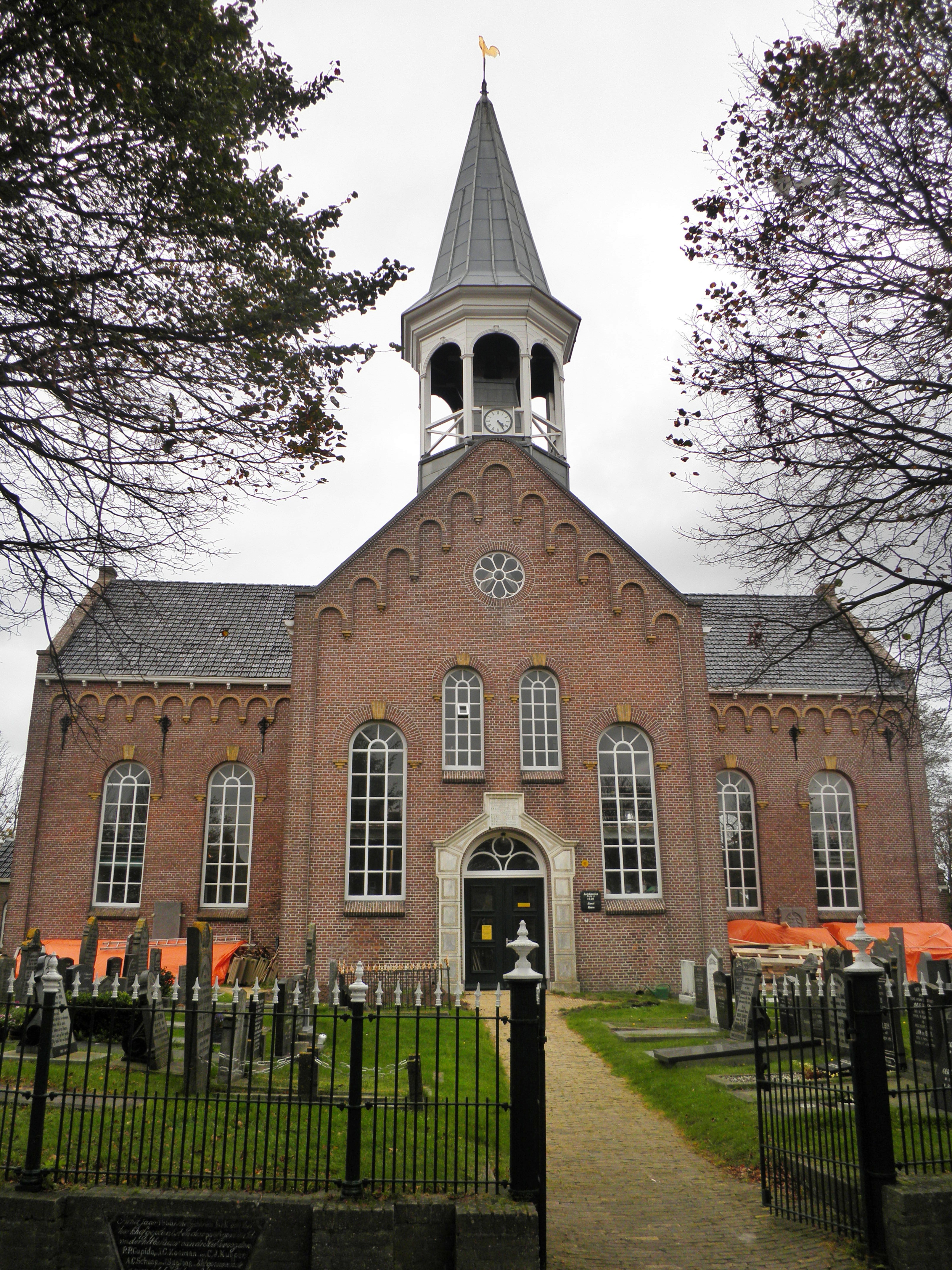 Front (south) entrance of the crudiform church at Westerburen 2 in Midsland on the island of Terschelling in the Netherlands, built in 1880 in eclectic style with neo-Renaissance elements on an elevated churchyard with cast iron fence. Nationally listed heritage.